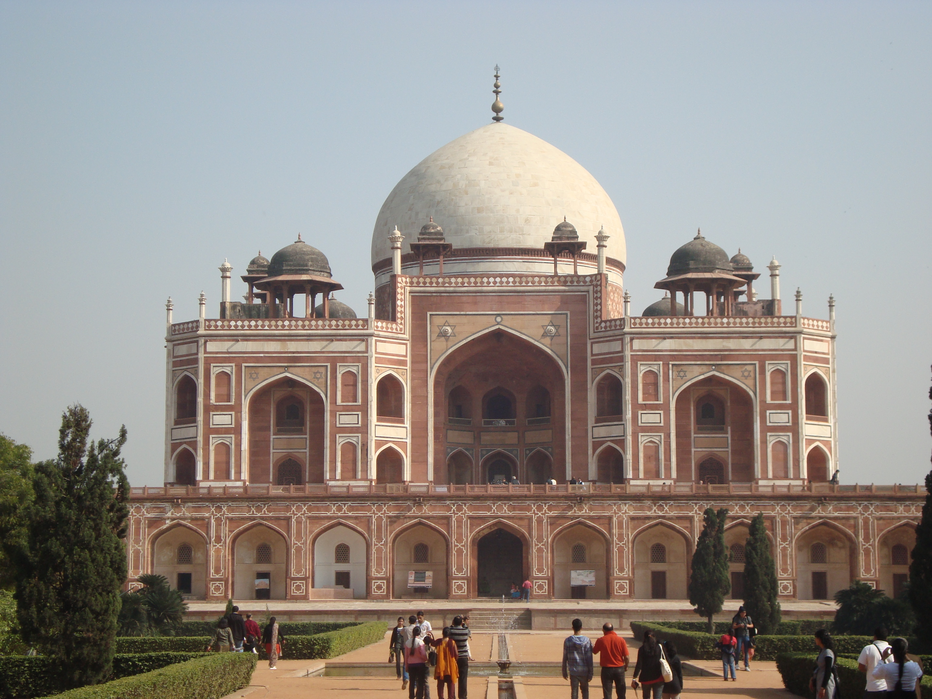 Main monument/tomb at Humayun's Tomb complex, New Delhi, India.